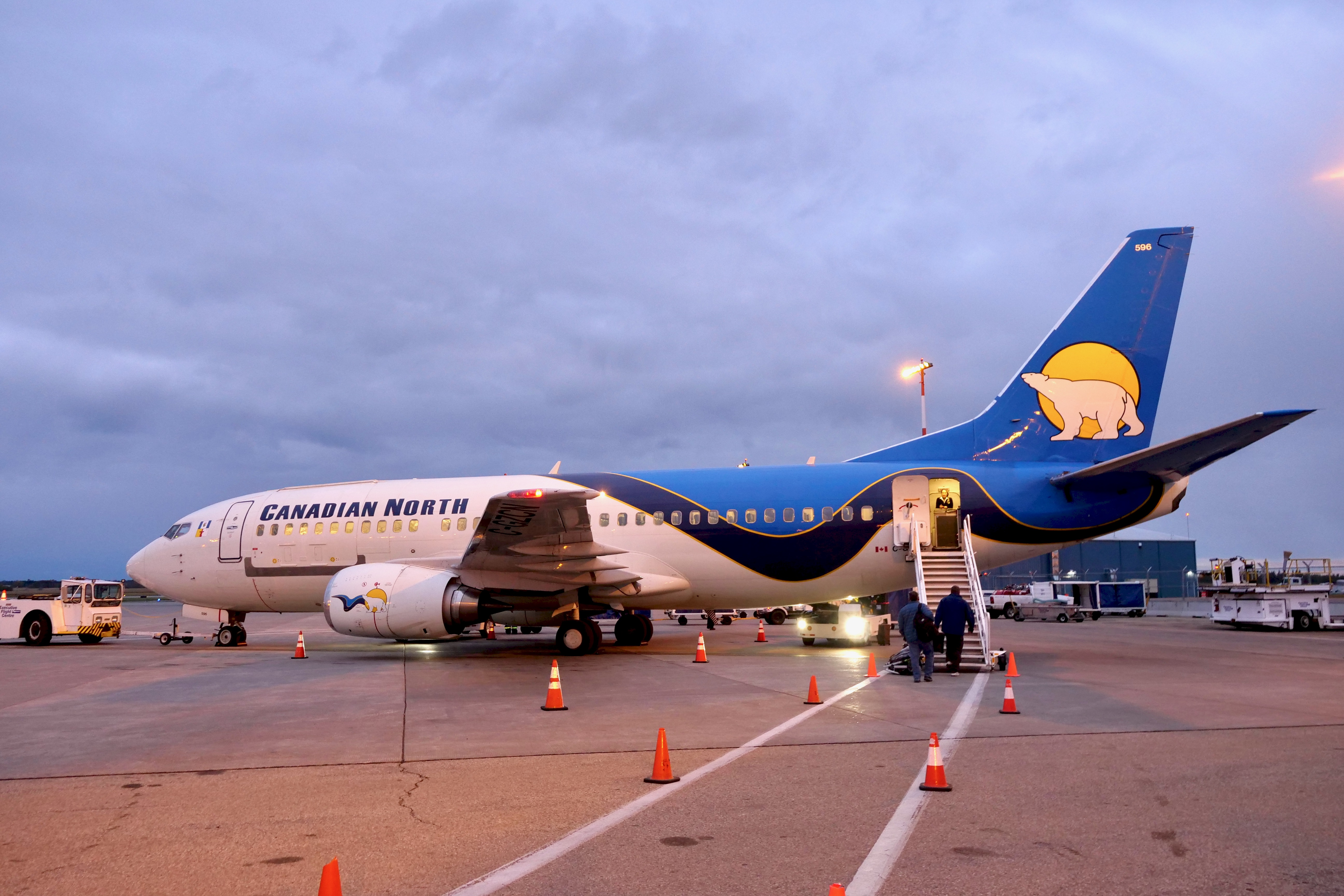 Canadian North Boeing 737-300 (C-GZCN) ready for boarding at Edmonton International Airport.